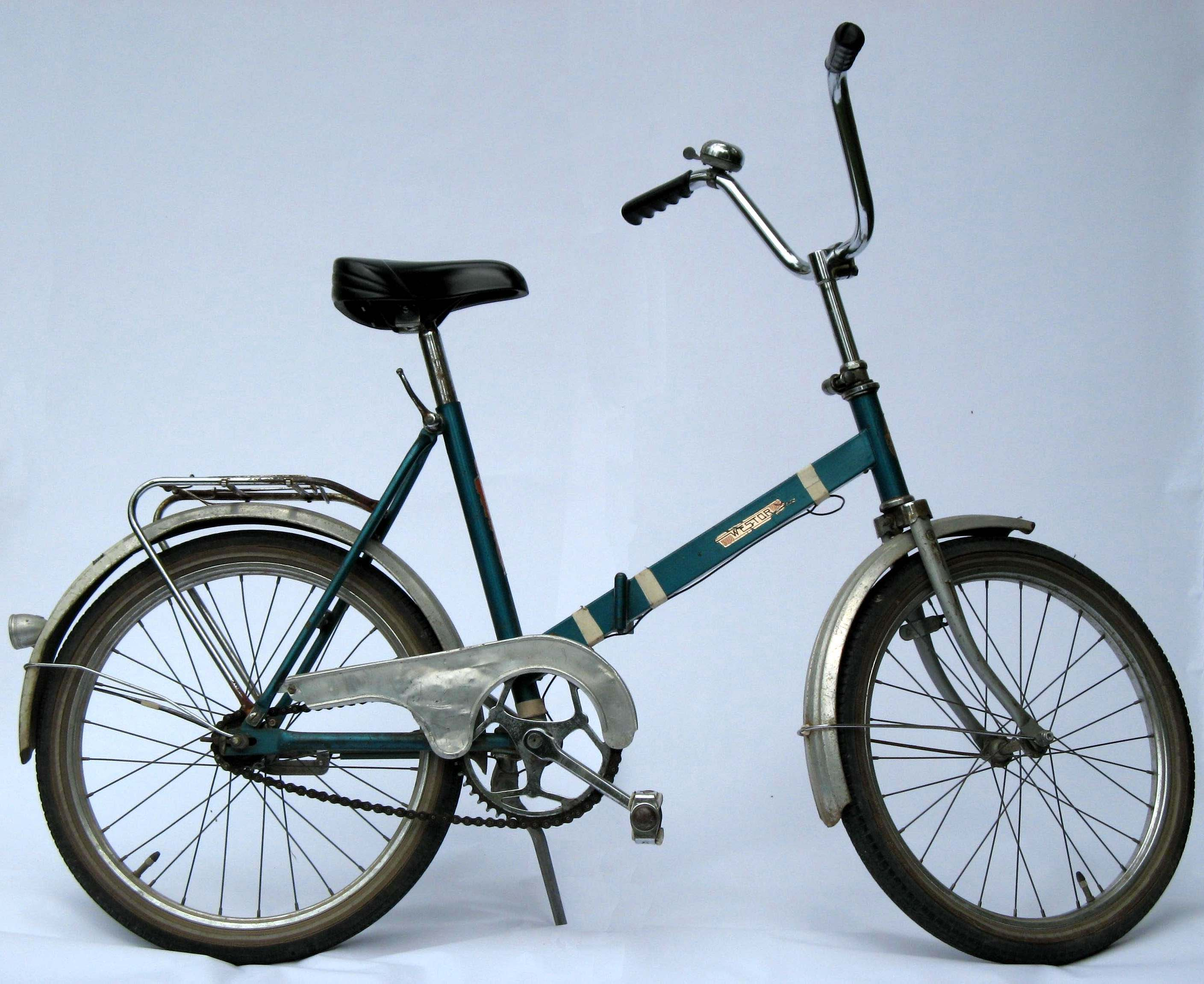 Westor bicycle.